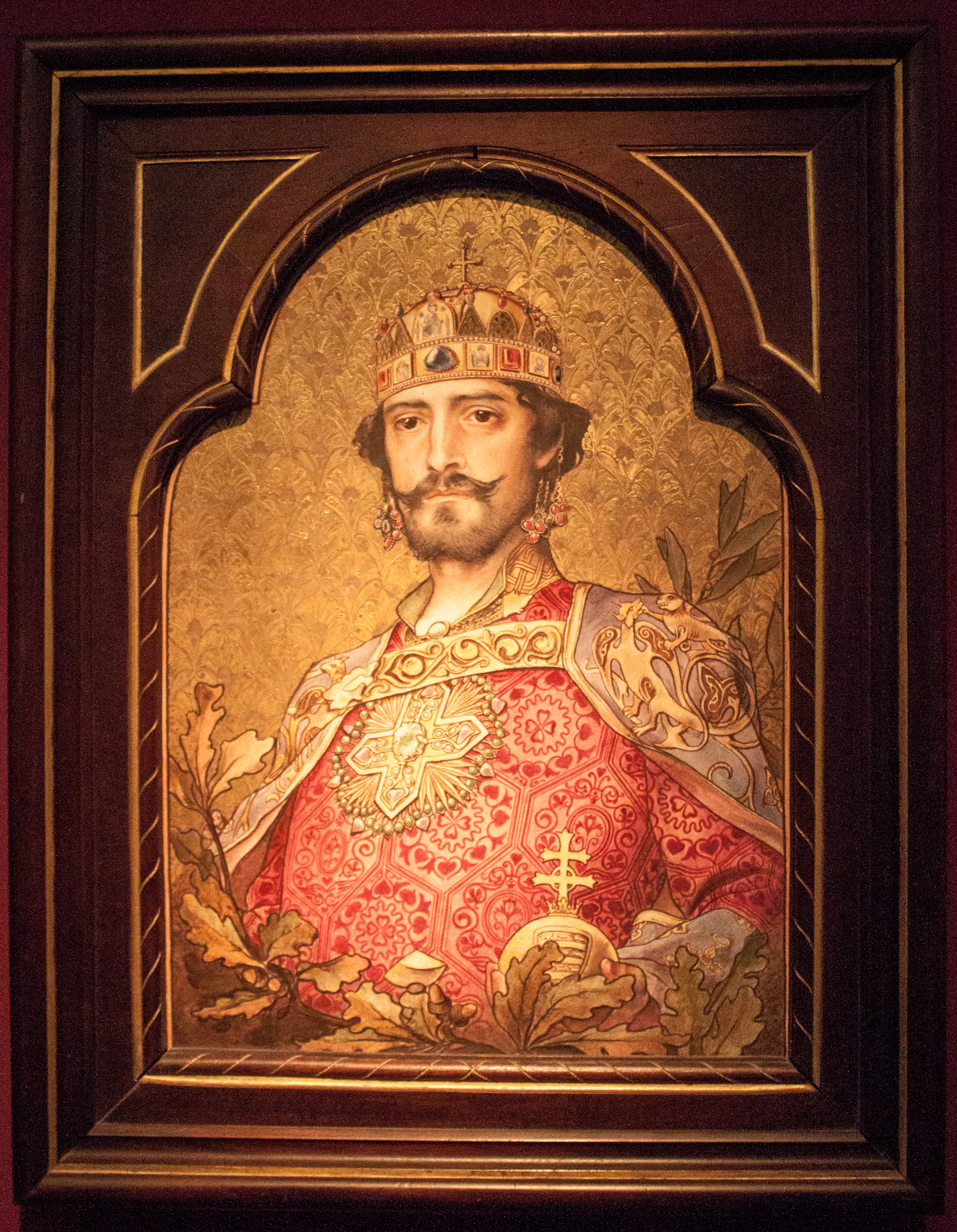 Andrew III, King of Hungary - test piece for murals in the Royal Palace in Budapest